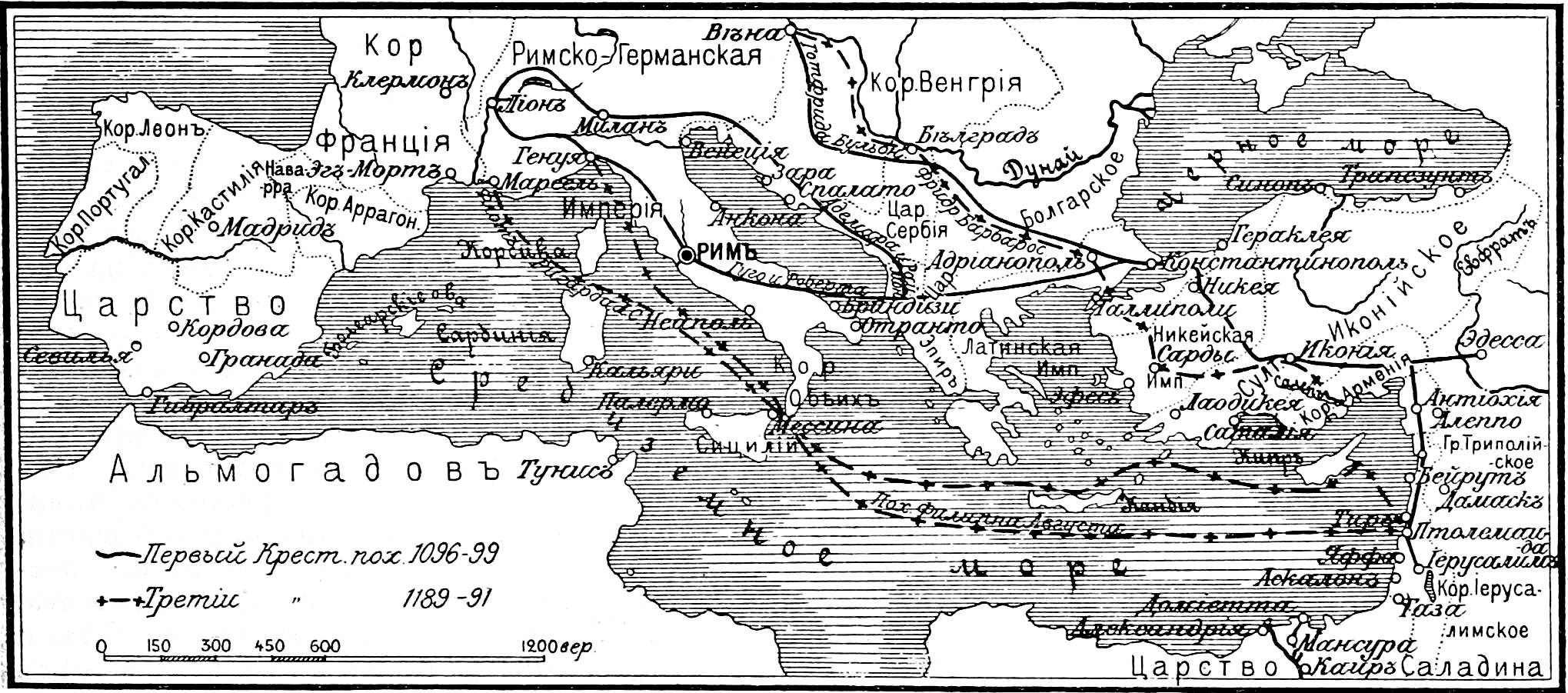 Map of the crusades